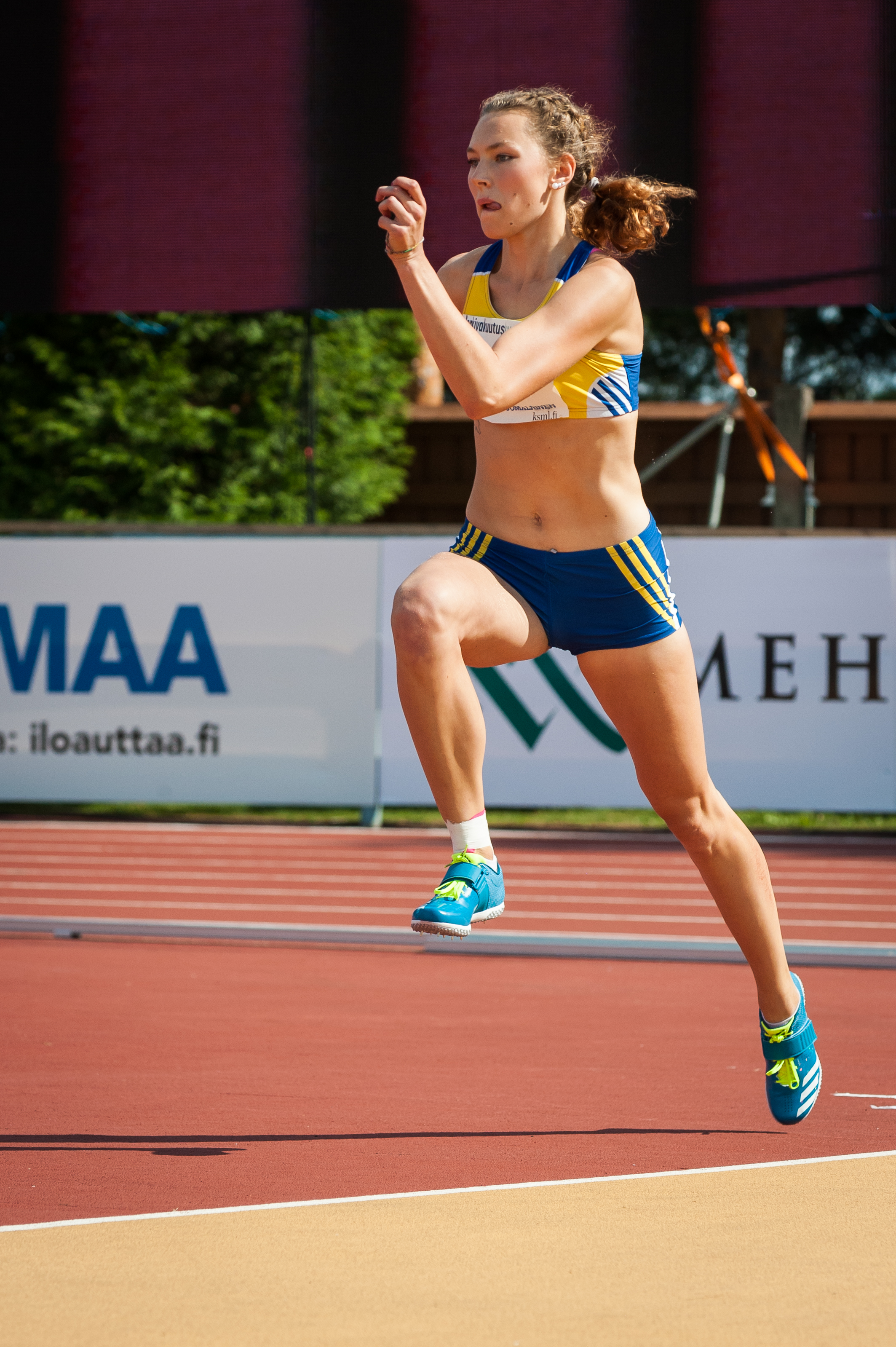 Women's high jump competition at the 2018 Kalevan Kisat, the Finnish championships in athletics, in Jyväskylä, Finland.